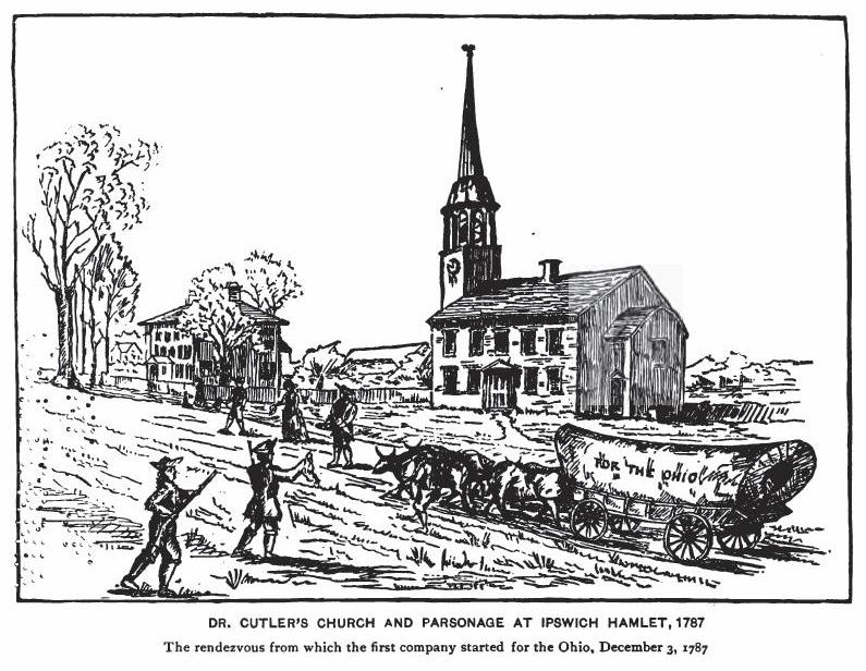 Departure on December 3, 1787, from Manasseh Cutler’s parsonage in Ipswich, Massachusetts, of the first of two groups comprising the forty-eight pioneers to the Ohio Country and the Northwest Territory. This image is from the book by Edwin Erle Sparks, The United States of America, Part 1, published in 1904. ColWilliam (talk) 22:16, 2 May 2008 (UTC)